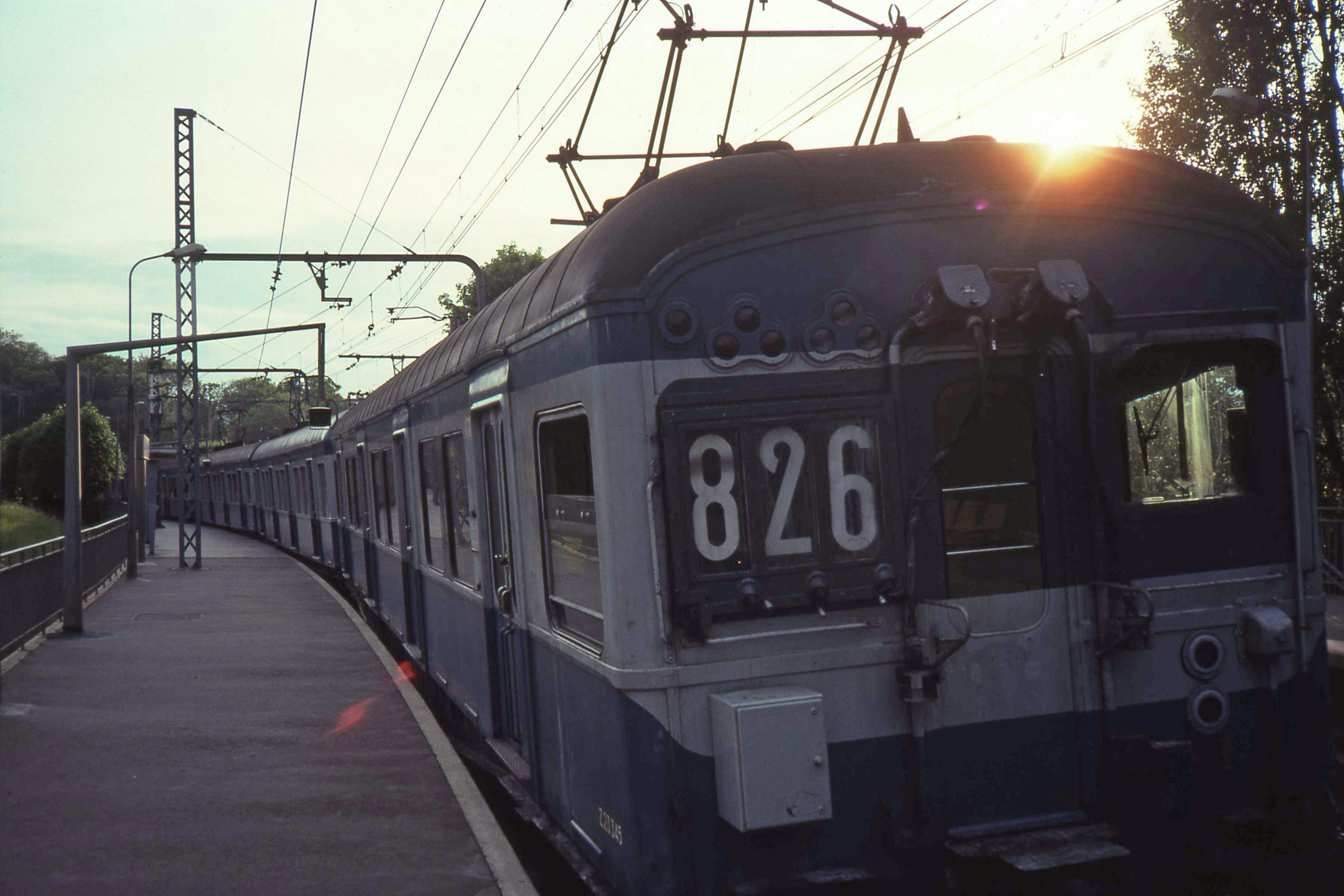 Old Z23000 multiple unit running on the Sceaux line, later RER line B.